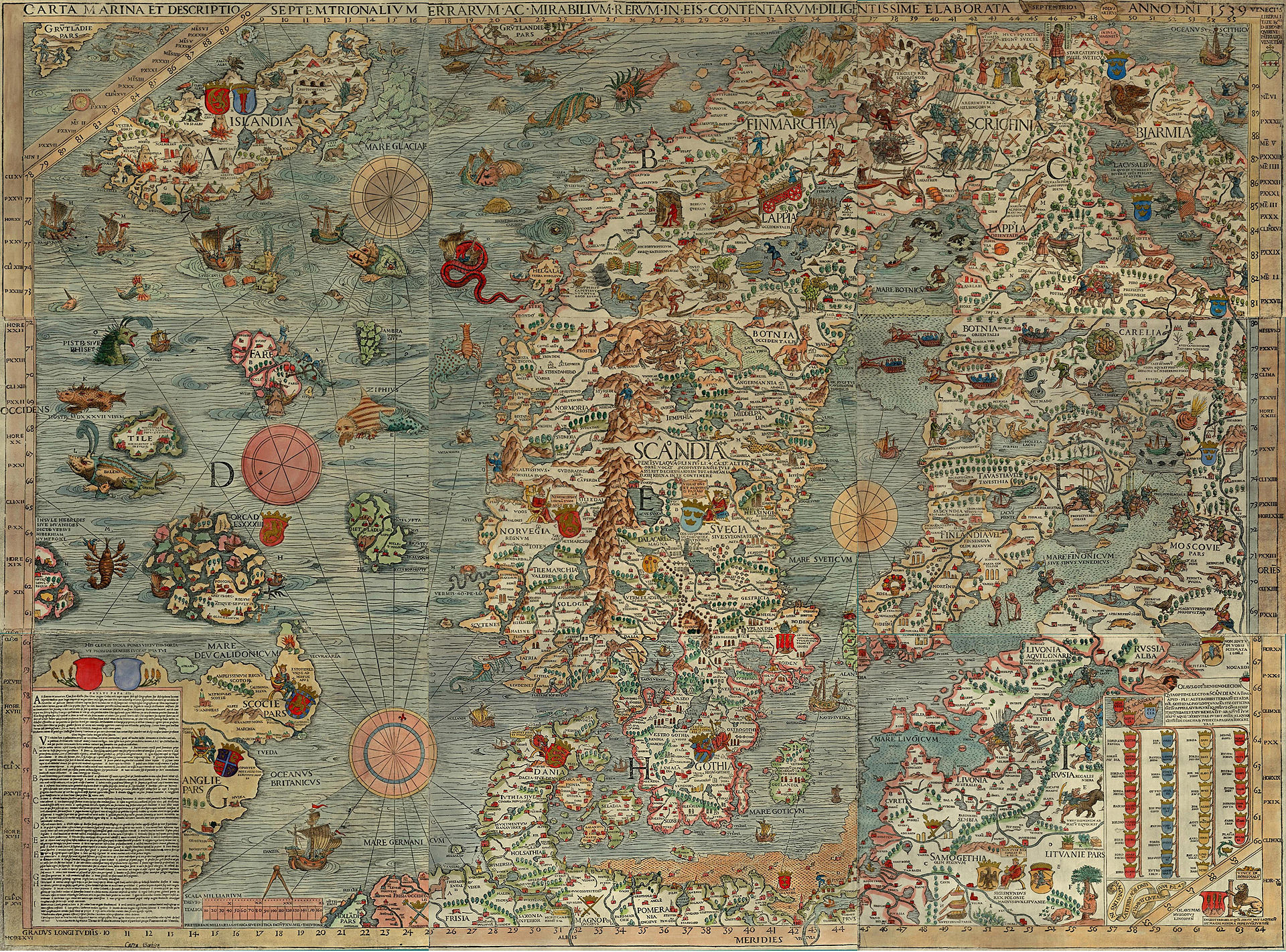 The Swedish ecclesiastic Olaus Magnus map Carta marina from 1539 shows a series of sea creatures in the waters between Norway and Iceland.